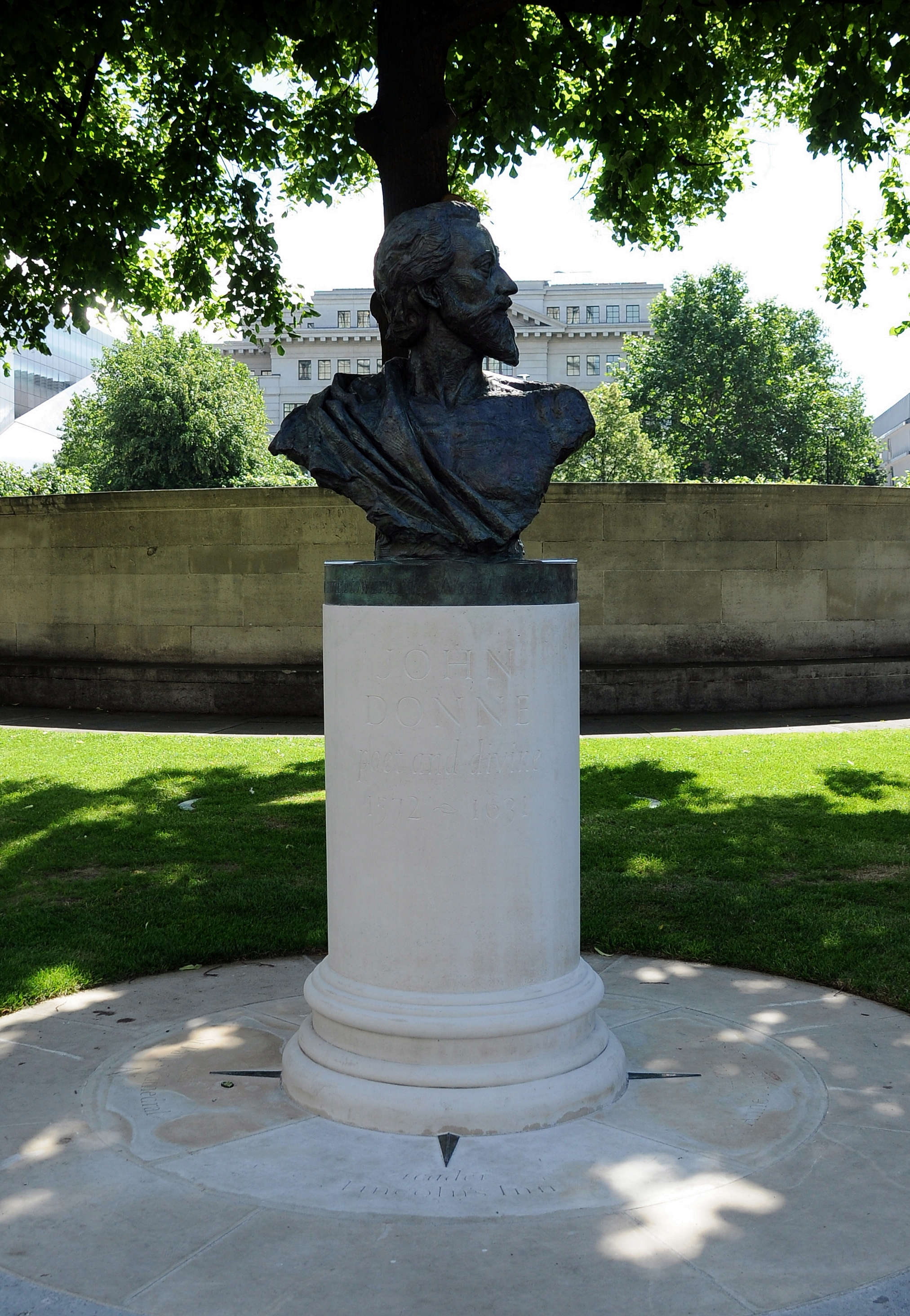 John Donne bust by Nigel Boonham, located to the south of St. Paul's Cathedral. 2012.